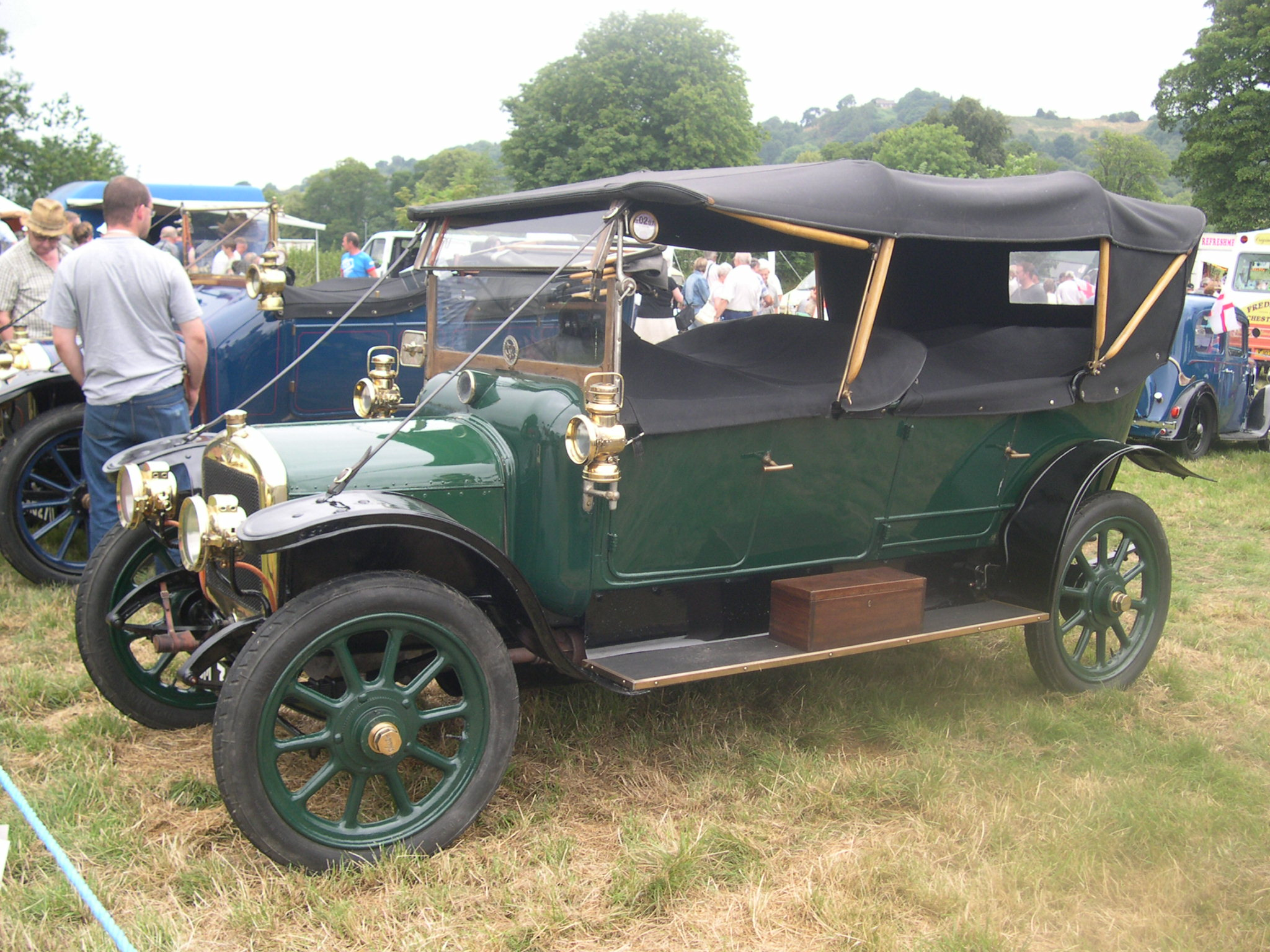 1913 Austin 10hp Sirdar Ashover Derbyshire 2006 Year 1913 Reg BM 3422 Car 10605 Engine 10694 Body Sirdar phaeton Info from The Edwardian Austin, Ian Dimmer